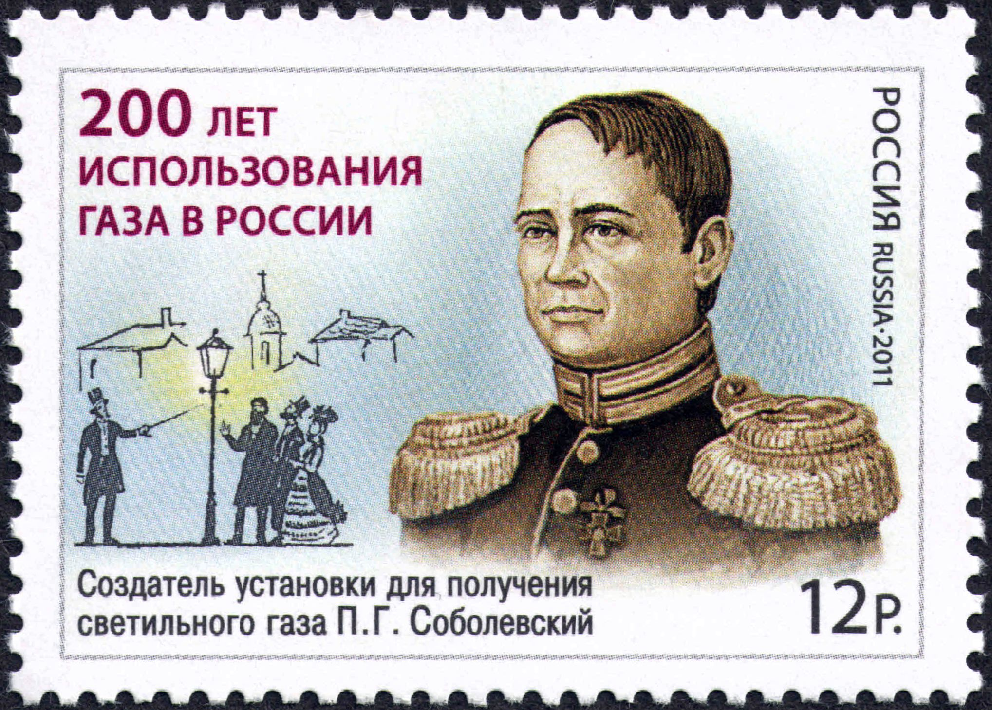 200th anniversary of the use of gas in Russia.The portrait of the Russian engineer Pyotr Grigorievich Sobolevsky[1] (1781–1841), the developer of the system of gas lighting Thermogas (1811, Saint Petersburg); the people promenading by the light of the first gas lightning in Saint Petersburg. The stamp of Russia, 12.00 Rubles, 28 October 2011, PTC Marka Catalogue No 1541, Michel No 1773. Coated paper. Offset printing. Perforation: comb 12½×12. Size of the stamp: 37.5×25.5 mm. Print run: 465,000.